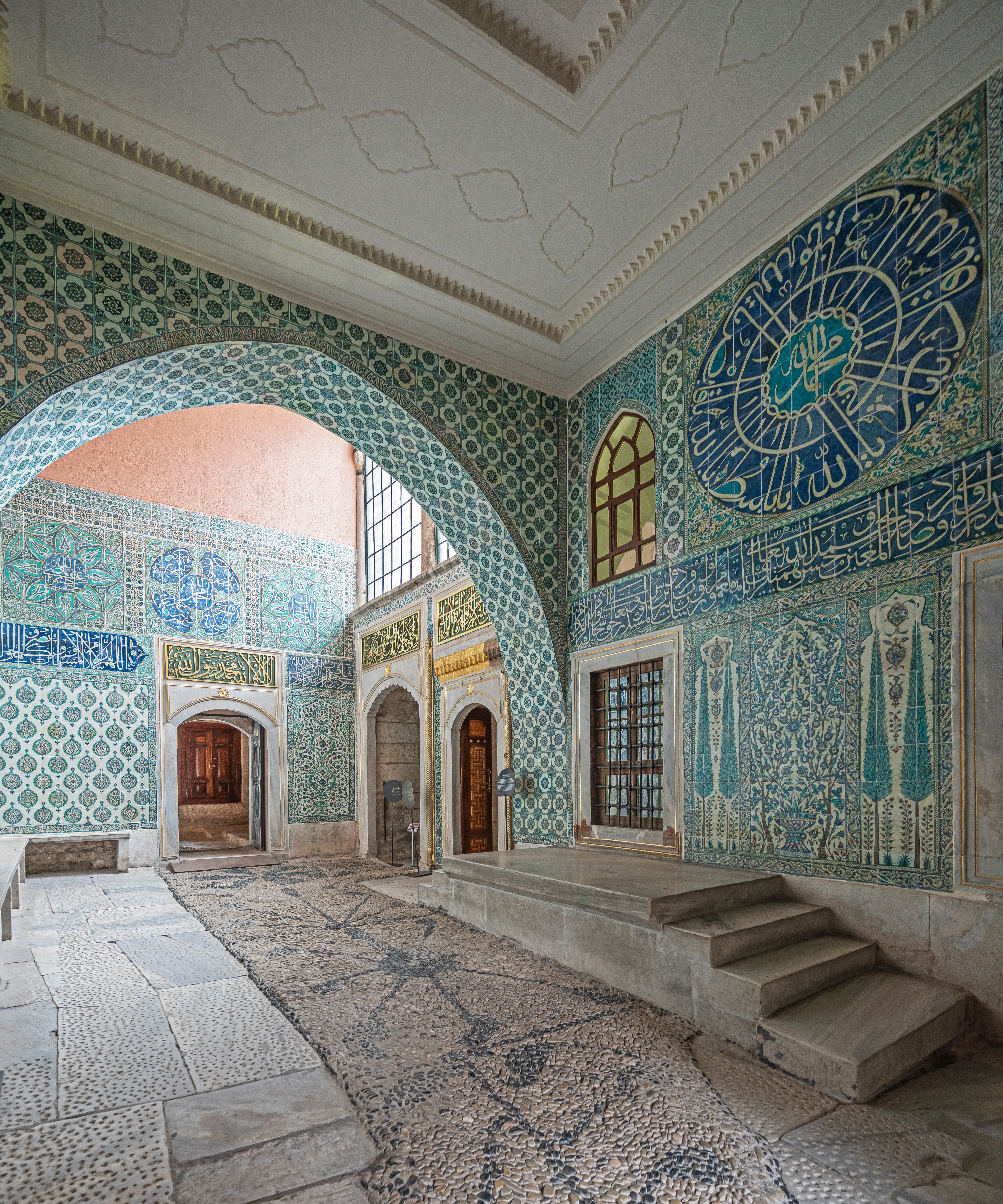 Eunuchs' Courtyard in Harem of Topkapı Palace in Istanbul, Turkey